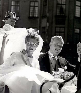 Wedding day of Princess Birgitta of Sweden and Prince Johann Georg of Hohenzollern in Stockholm.This was a civil ceremony, a religious ceremony was conducted five days in later in Sigmaringen, Germany.In the process, Princess Birgitta converted from protestantism to catholicism.